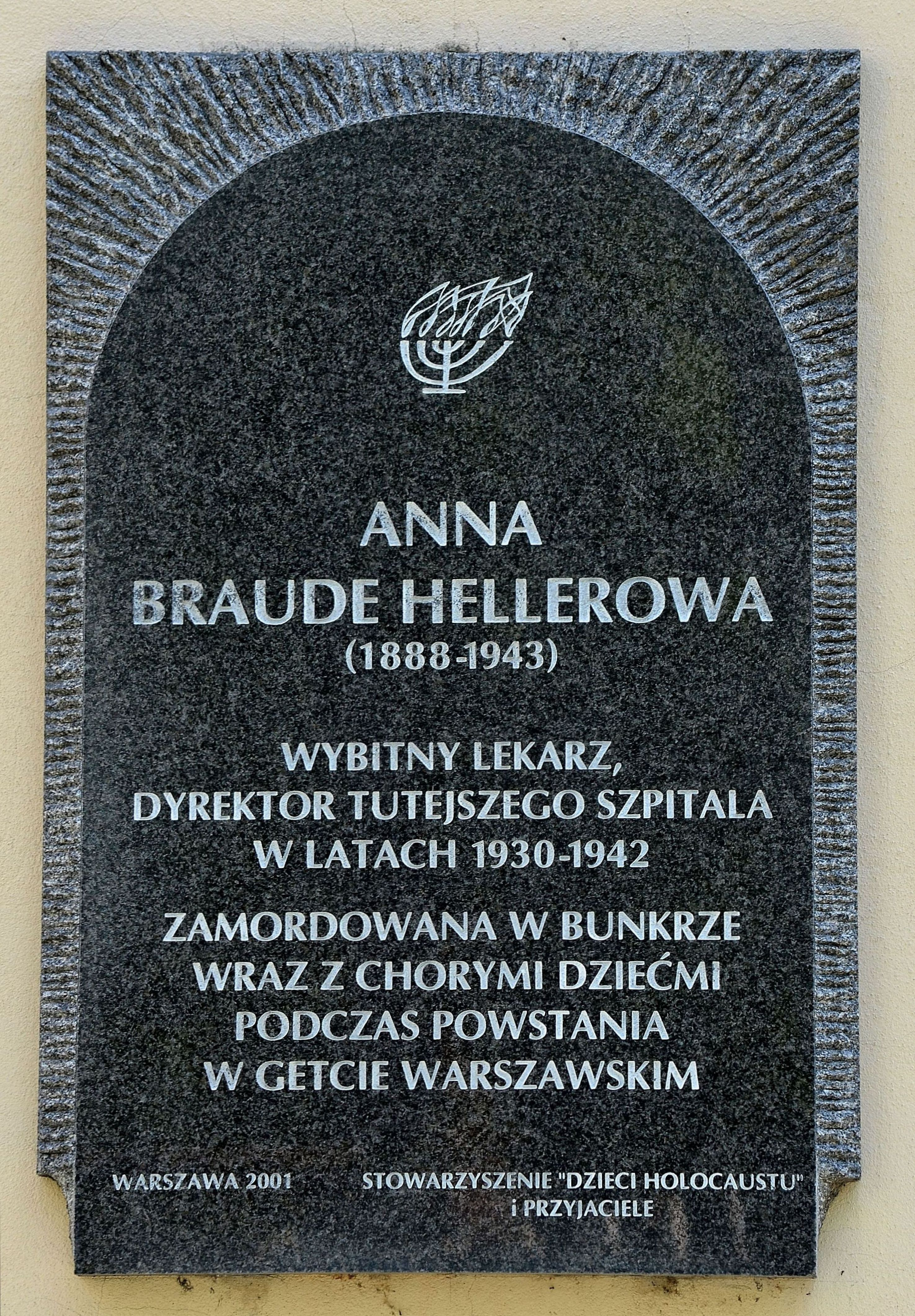 Commemorative plaque to Anna Braude-Hellerowa on the building of former Bersohns and Baumans Children's Hospital in Warsaw (Śliska Street side)